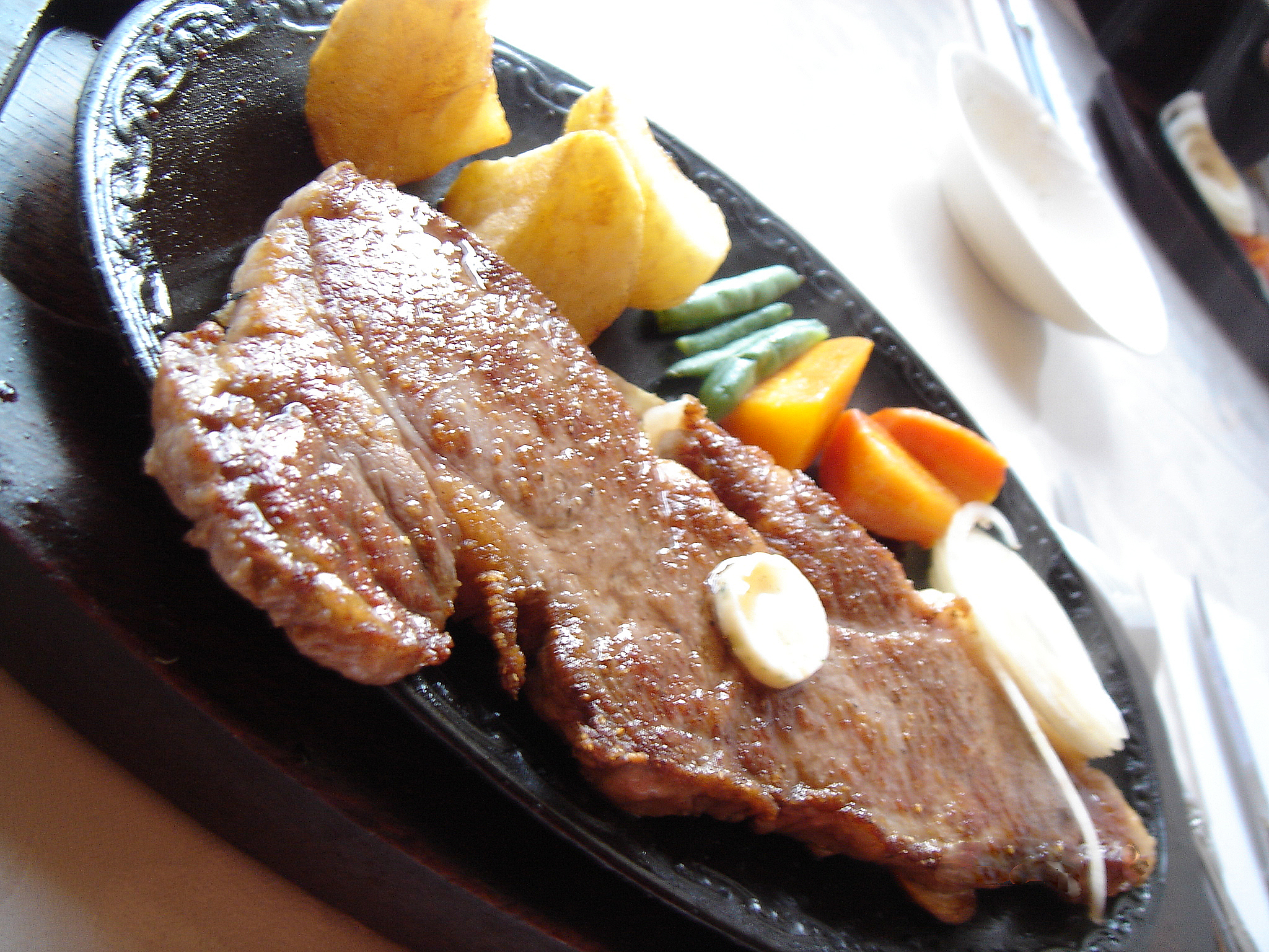 Sirloin steak of Tajima beef.